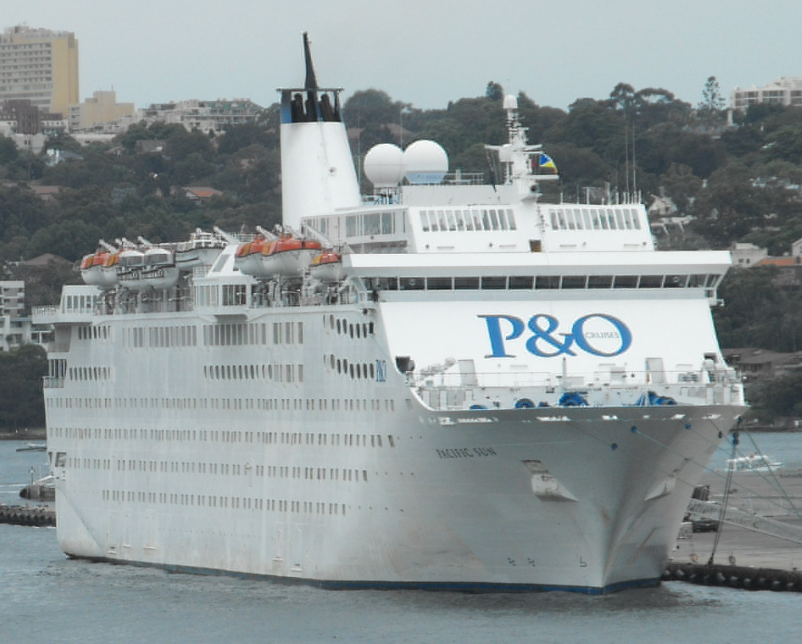 The cruise ship Pacific Sun docked in Darling Harbour, Sydney. The tall ship James Craig is sailing past